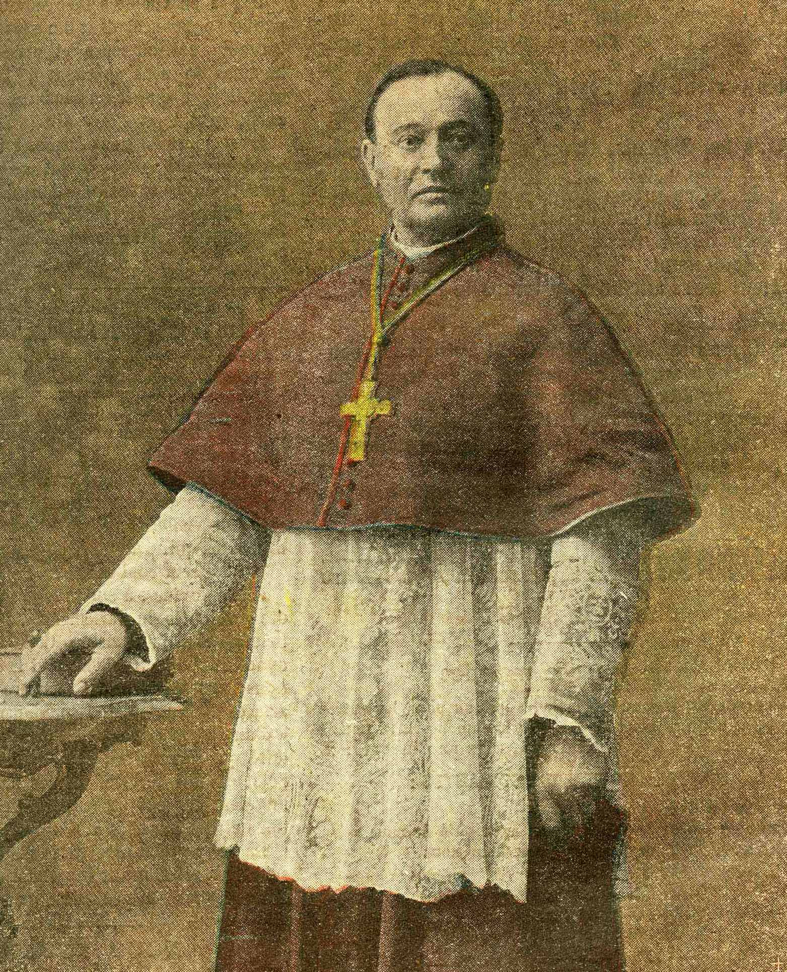 French archbishop Delamaire